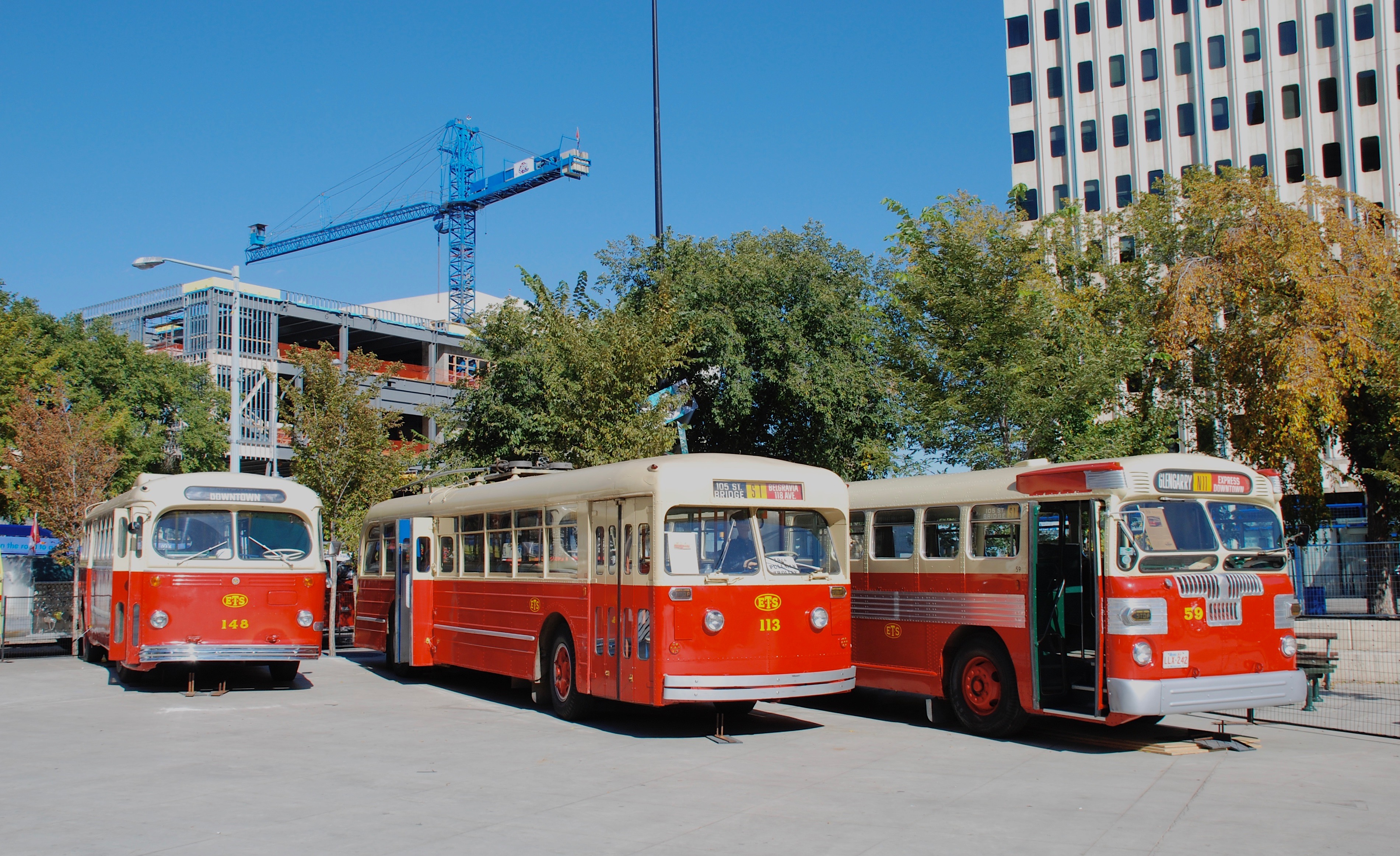 Three preserved, historic buses of Edmonton Transit System on display at Churchill Square, in downtown Edmonton, during events in September 2008 celebrating the centennial of ETS (counted from the start of the predecessor company, the Edmonton Radial Railway). From left to right are trolley bus 148 (a 1947 CCF-Brill T44), trolley bus 113 (ex-116, a 1944 Pullman-Standard), and gasoline-powered motor bus 59 (a 1950 Twin Coach).